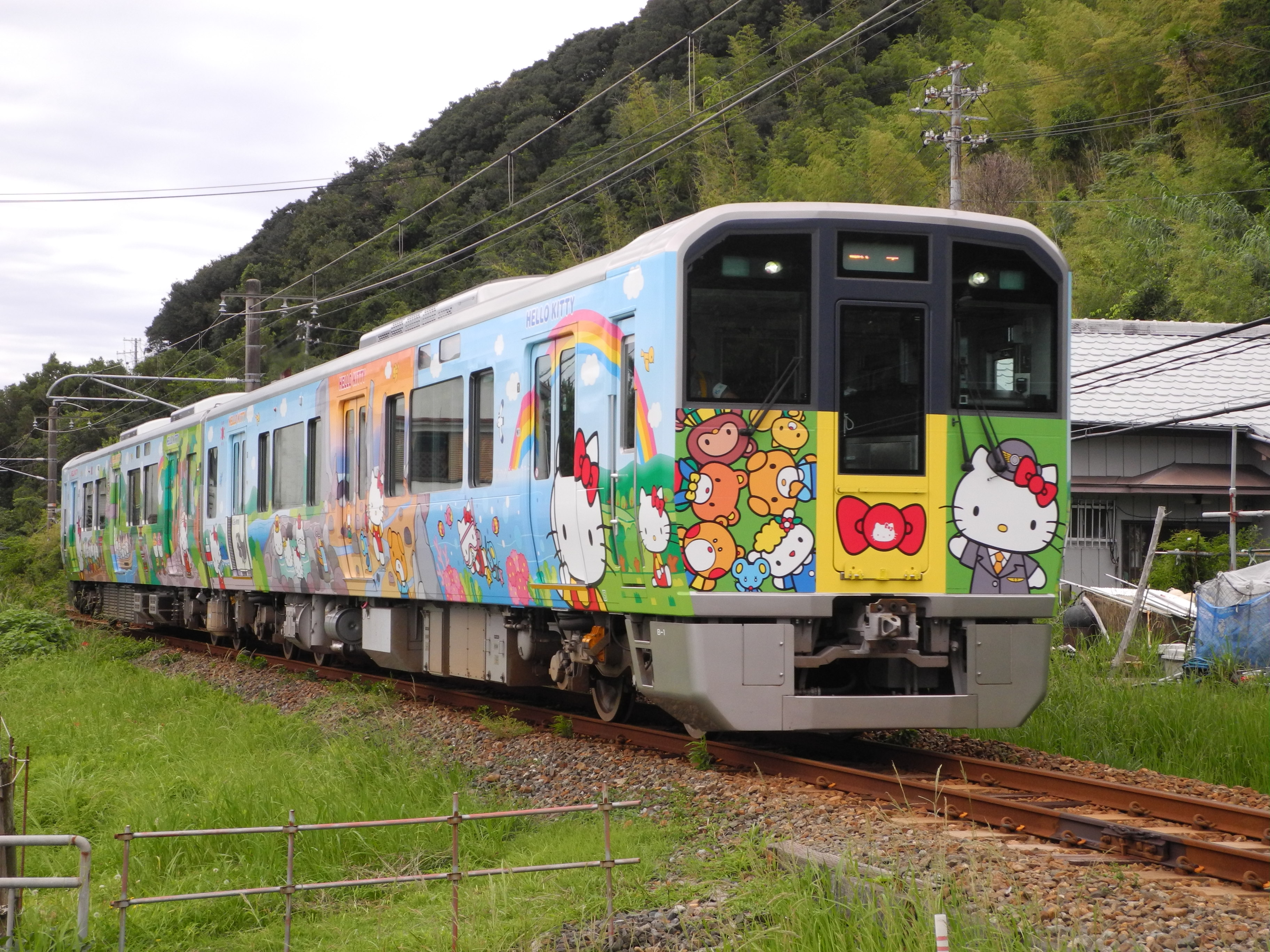 The Smart BEST experimental battery electric multiple unit train operating as the "Hello Kitty Wakayama Train" on the JR West Kinokuni Line